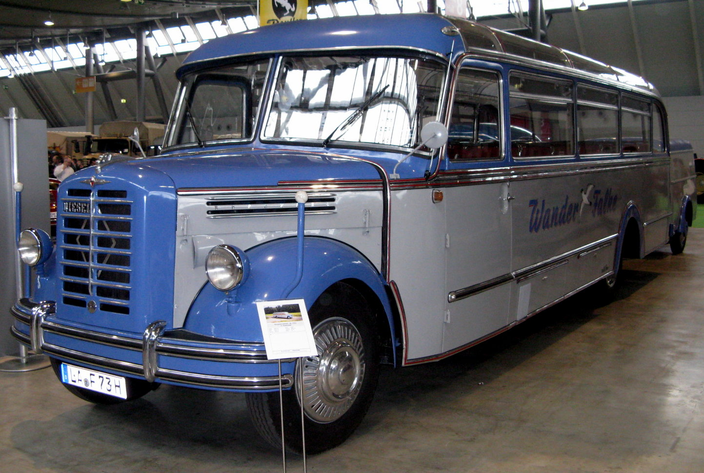 1952 Borgward B 4000 bus